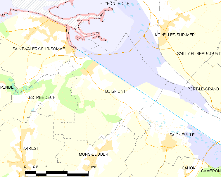 Map of French municipality Boismont